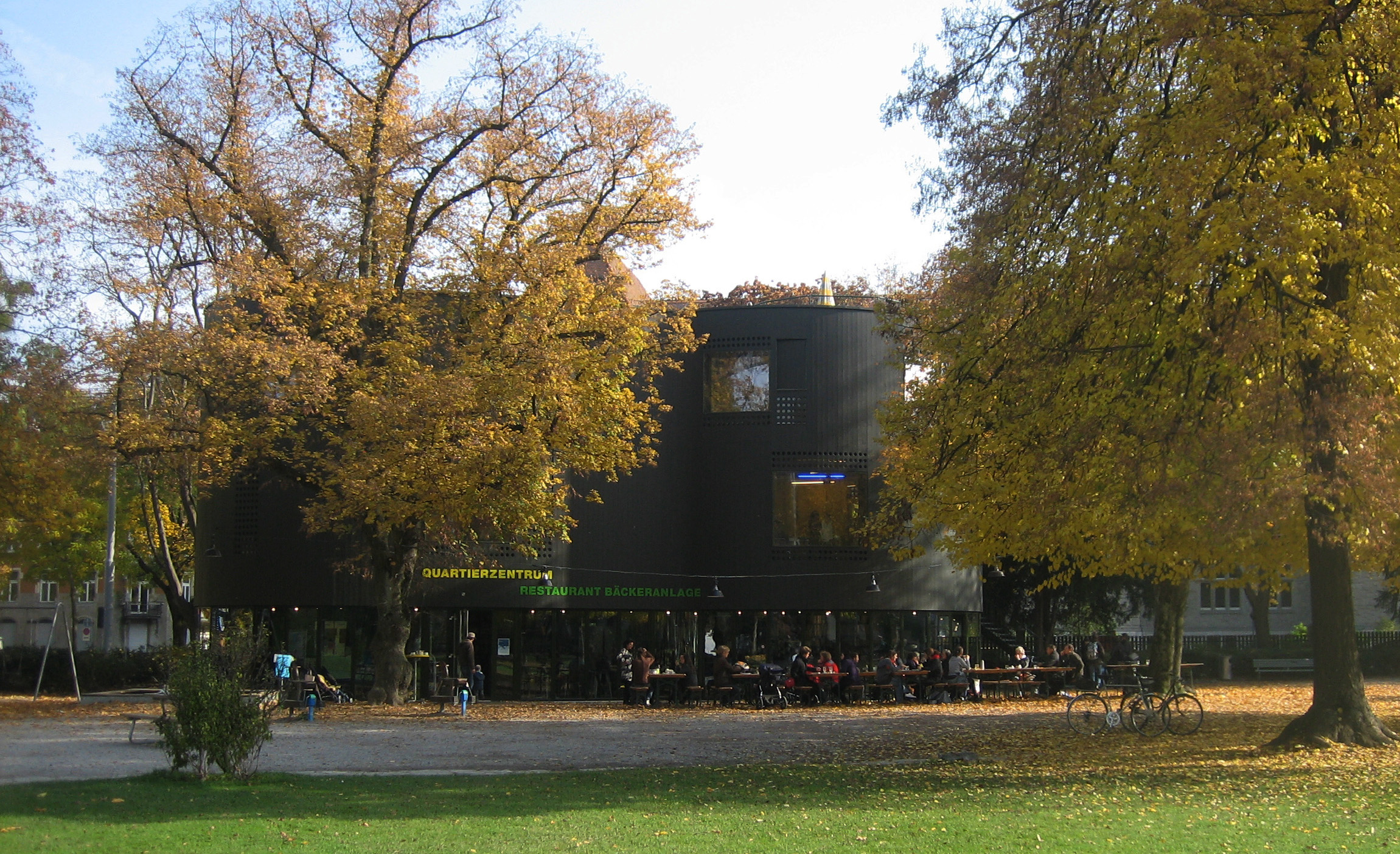 Bäckeranlage in Zürich